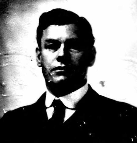 Photograph of William V. B. Van Dyck, Rutgers football player and coach